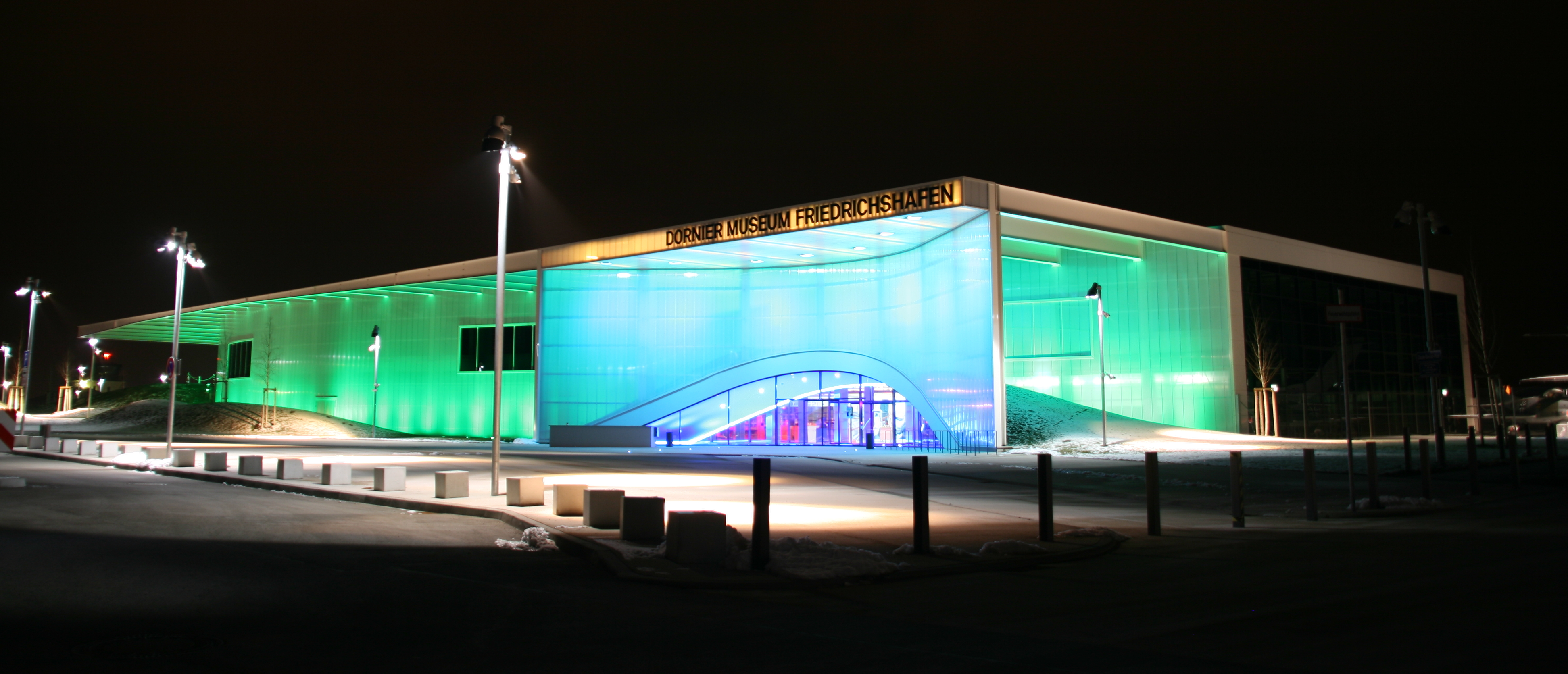 Dornier-Museum